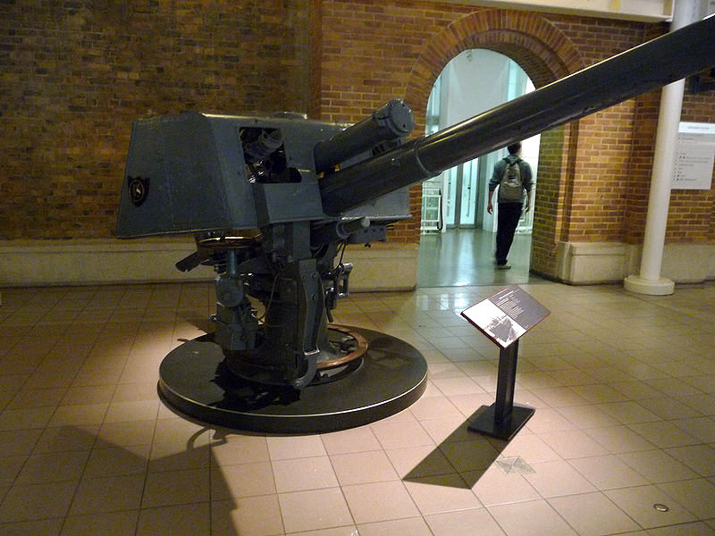 Photograph showing right-front view of British QF 4-inch Mk IV naval gun, at the Imperial War Museum, London. This is the gun from HMS Lance which fired the first British shot of World War I on 5 August, 1914. See also : File:QF 4 inch gun HMS Lance South Kensington 1926 IWM Q 45231.jpg this gun in 1926 File:QF 4 inch Mk IV gun IWM.jpg breech-end view today